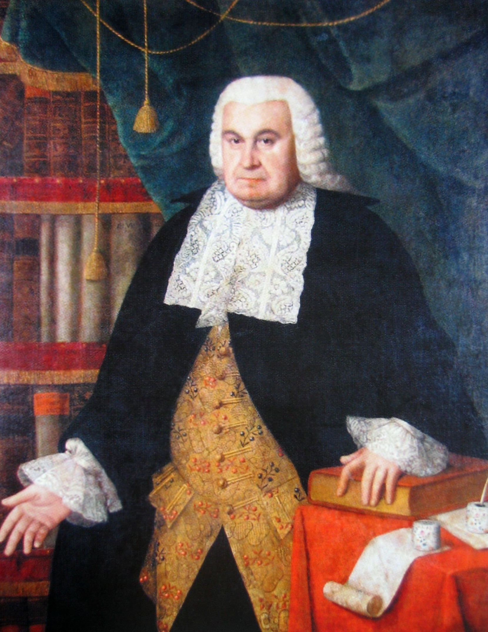 Portrait of Gottfried Lengnich (1689-1774), historian, lawyer and politician